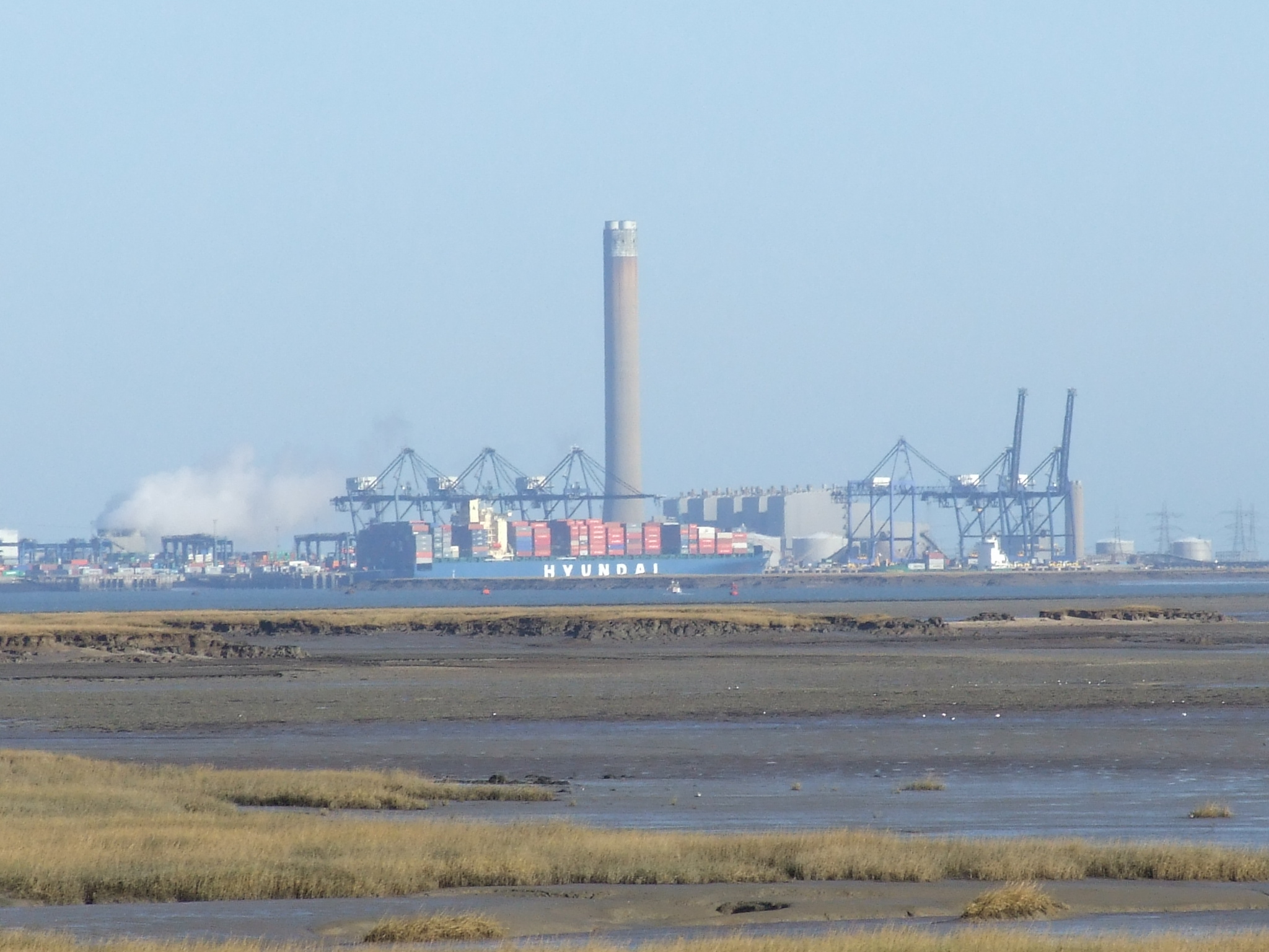 Grain Power Station is on the end of the Hoo peninsula in south east England, this shot is taken from Horrid Hill, Gillingham on the other side of the River Medway estuary, - OpenStreetMap(Info)